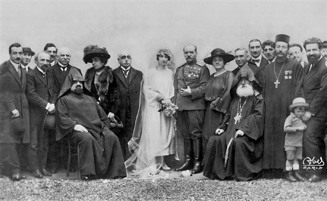 Andranik Ozanian's wedding in Paris, March 15, 1922. From left to right: Aram Andonian, Arshag Chobanian, Krikor Sinabian, Nubar's sister Mrs Noyemee, Poghos Nubar, Nvard Andranik, Gen. Andranik, Mr. and Mrs. Nranians, Fr. V. Kibarian, Andranik's soldier Fr. Y. Der-Barsamian and Dr. Haig.